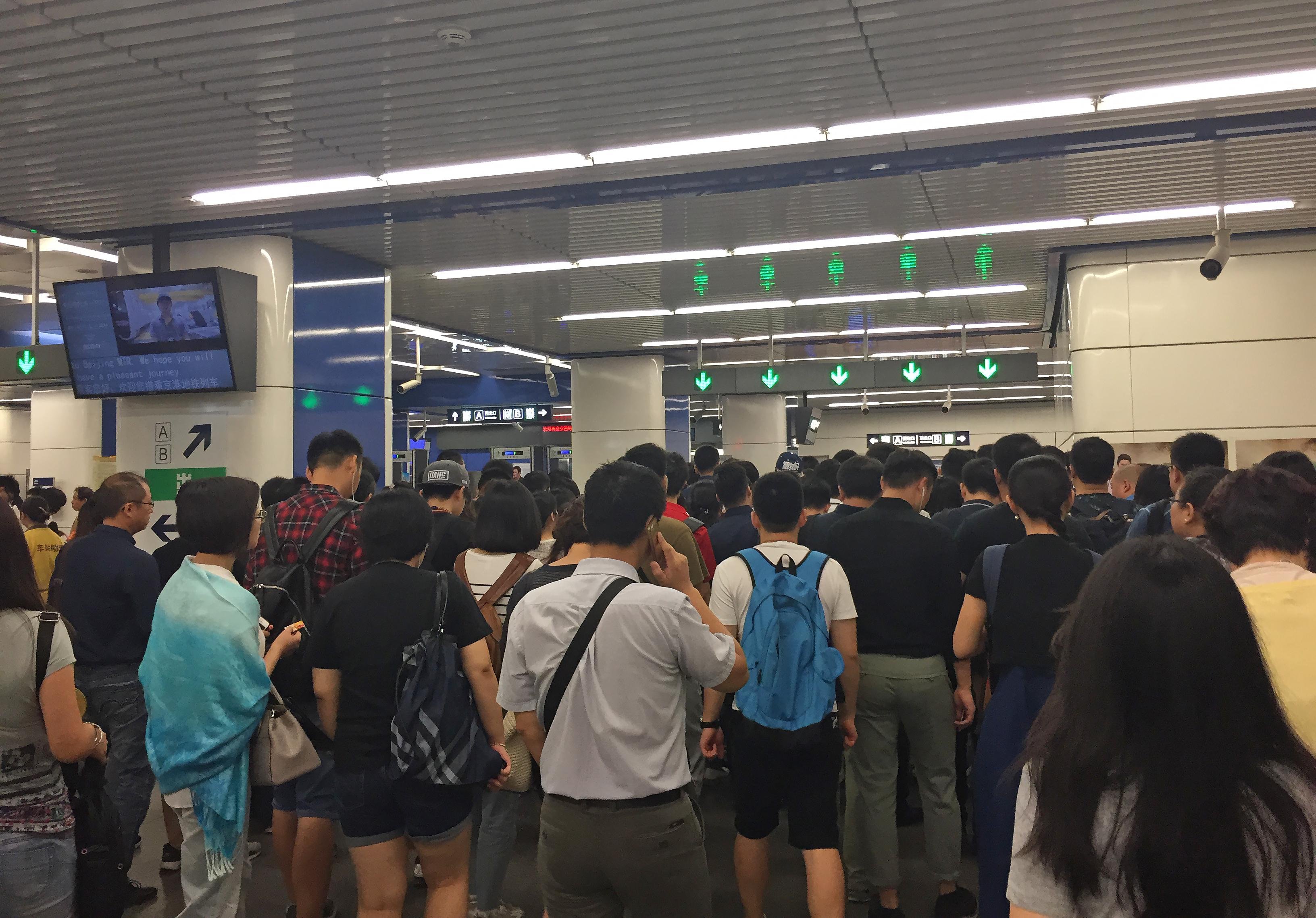 Why do so many passengers disembark here on this morning? This scene deserves the name of "Jiangtai Landings", which reminds me of the D-day at Normandy.